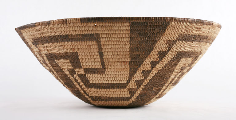 A grain basket in the permanent collection of The Children’s Museum of Indianapolis.